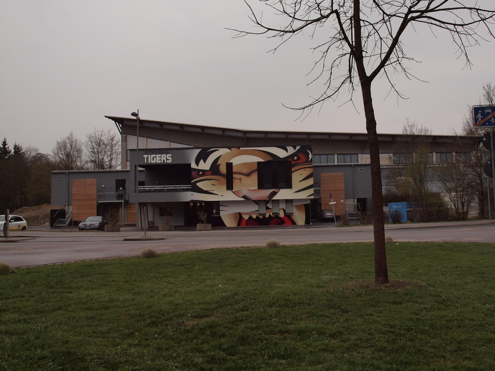 View of the municipal ice rink in Straubing, Germany